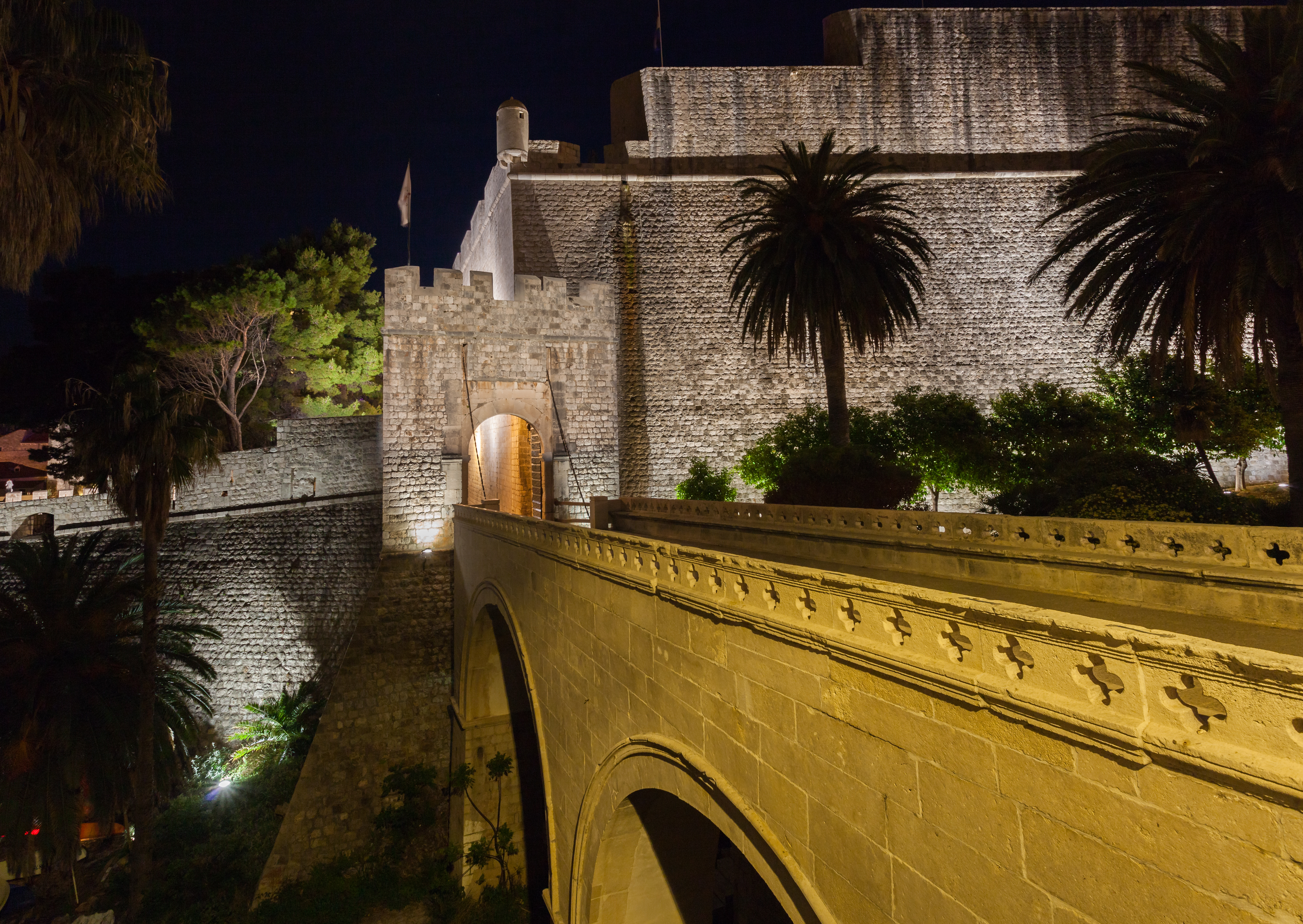 Old city of Dubrovnik, Croatia